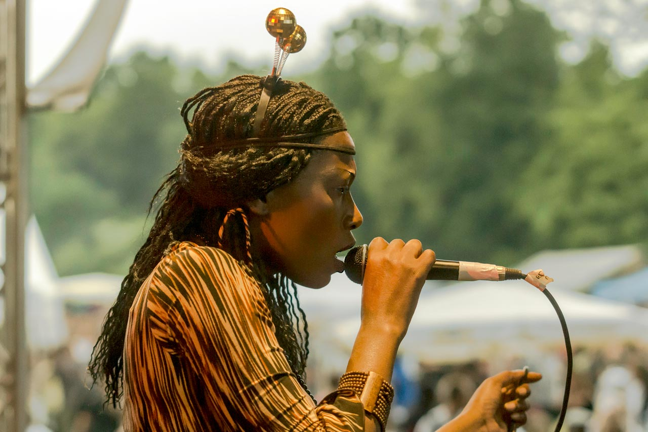 Niasony Live 01.